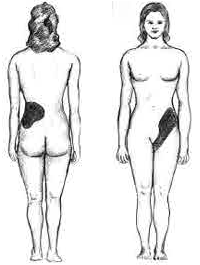 Localisation of pain caused by kidney stones in a renal colic.